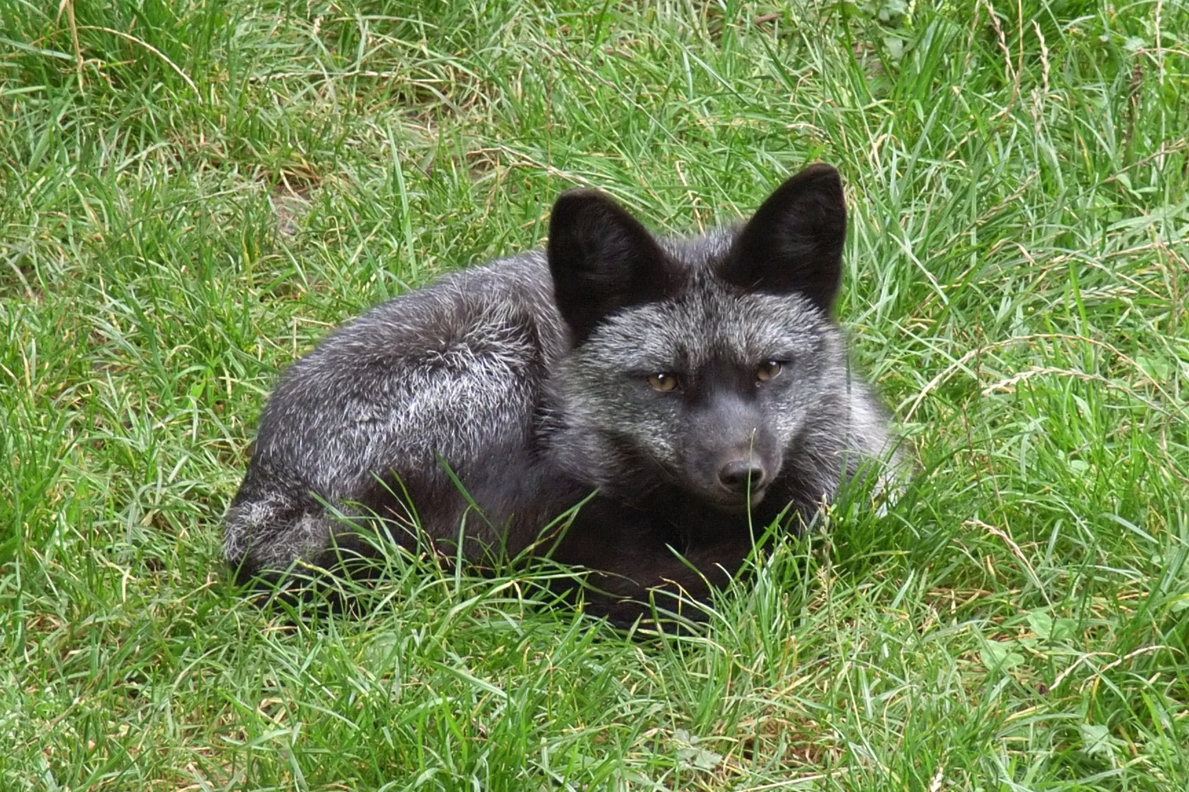 Silver fox